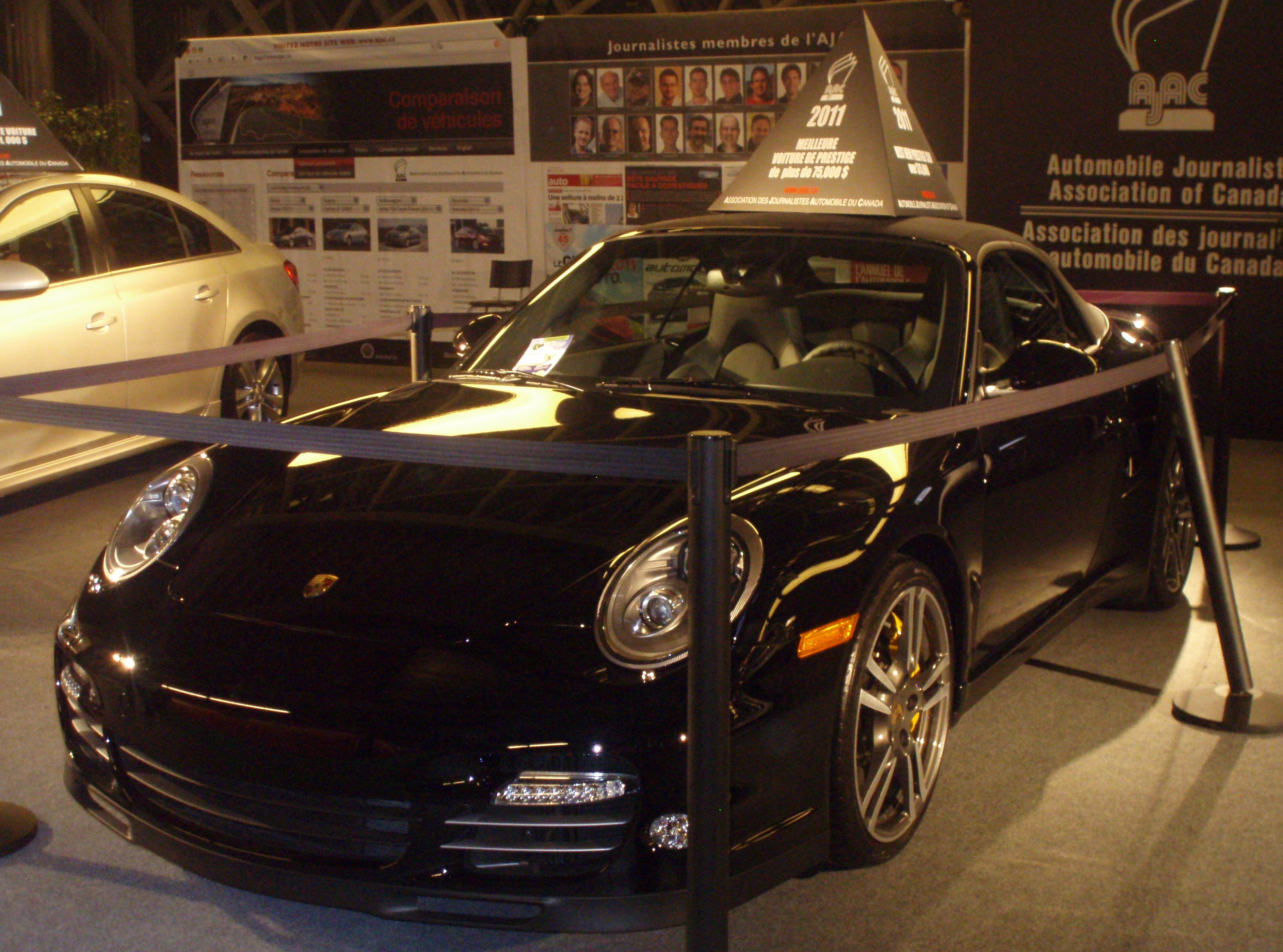 2011 Porsche 911 Carrera photographed in Montreal, Quebec, Canada at the 2011 Montreal International Auto Show.